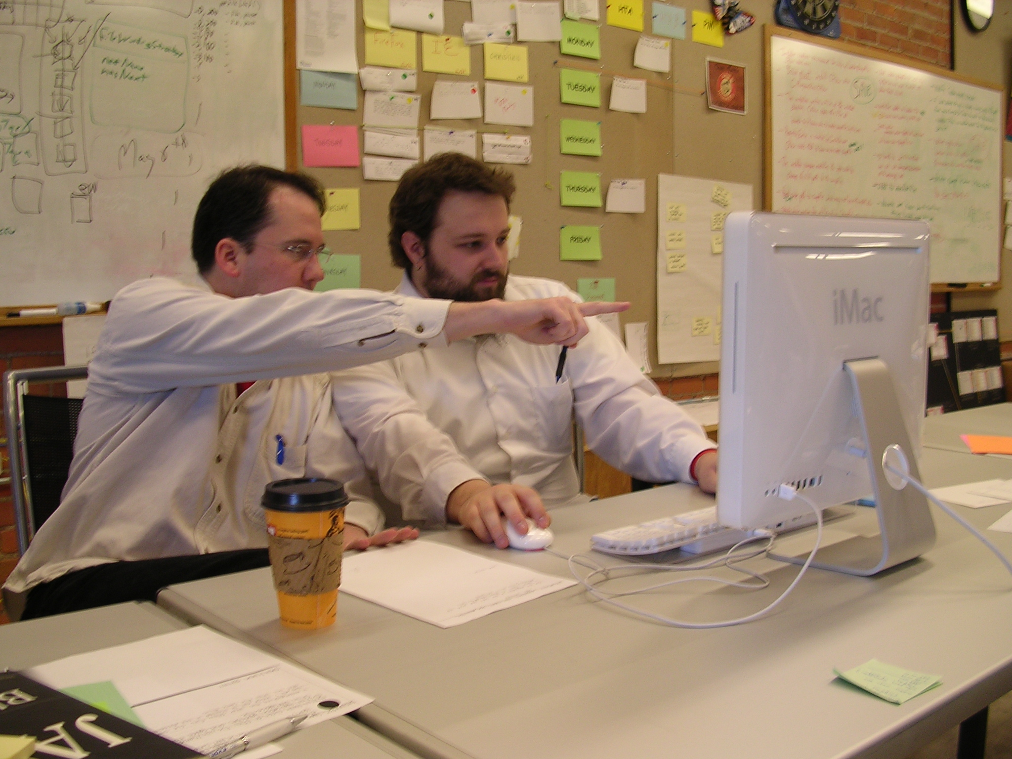 Look! It's paired programming!